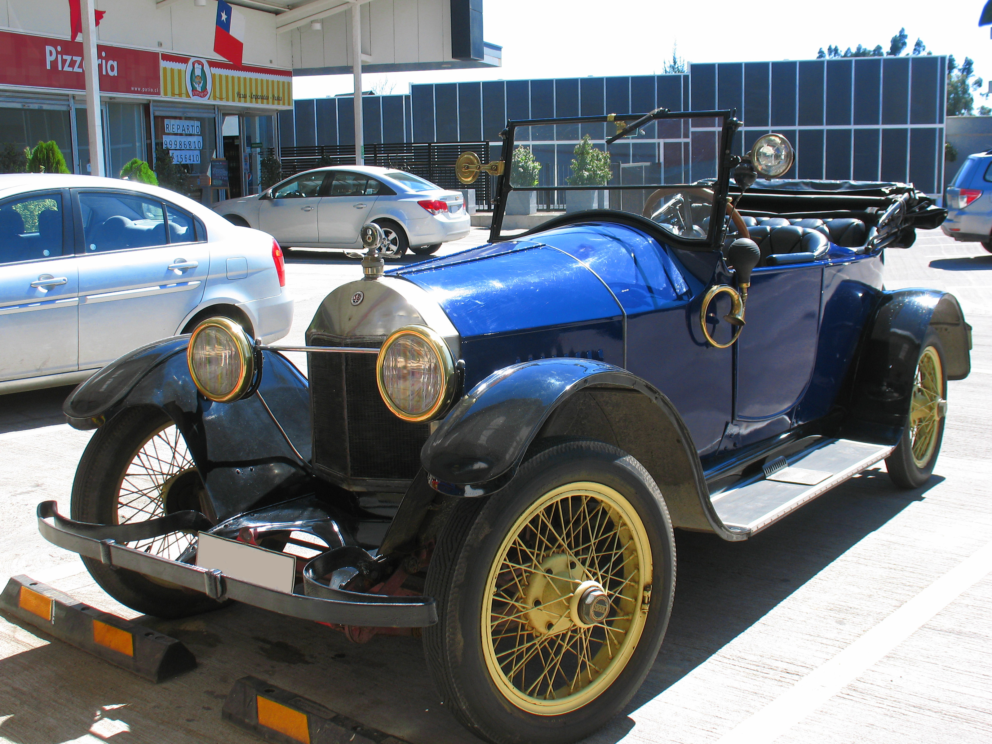 Spotted in a parking lot in San Pedro de la paz, Chile. This is the oldest car i've spotted in the street.